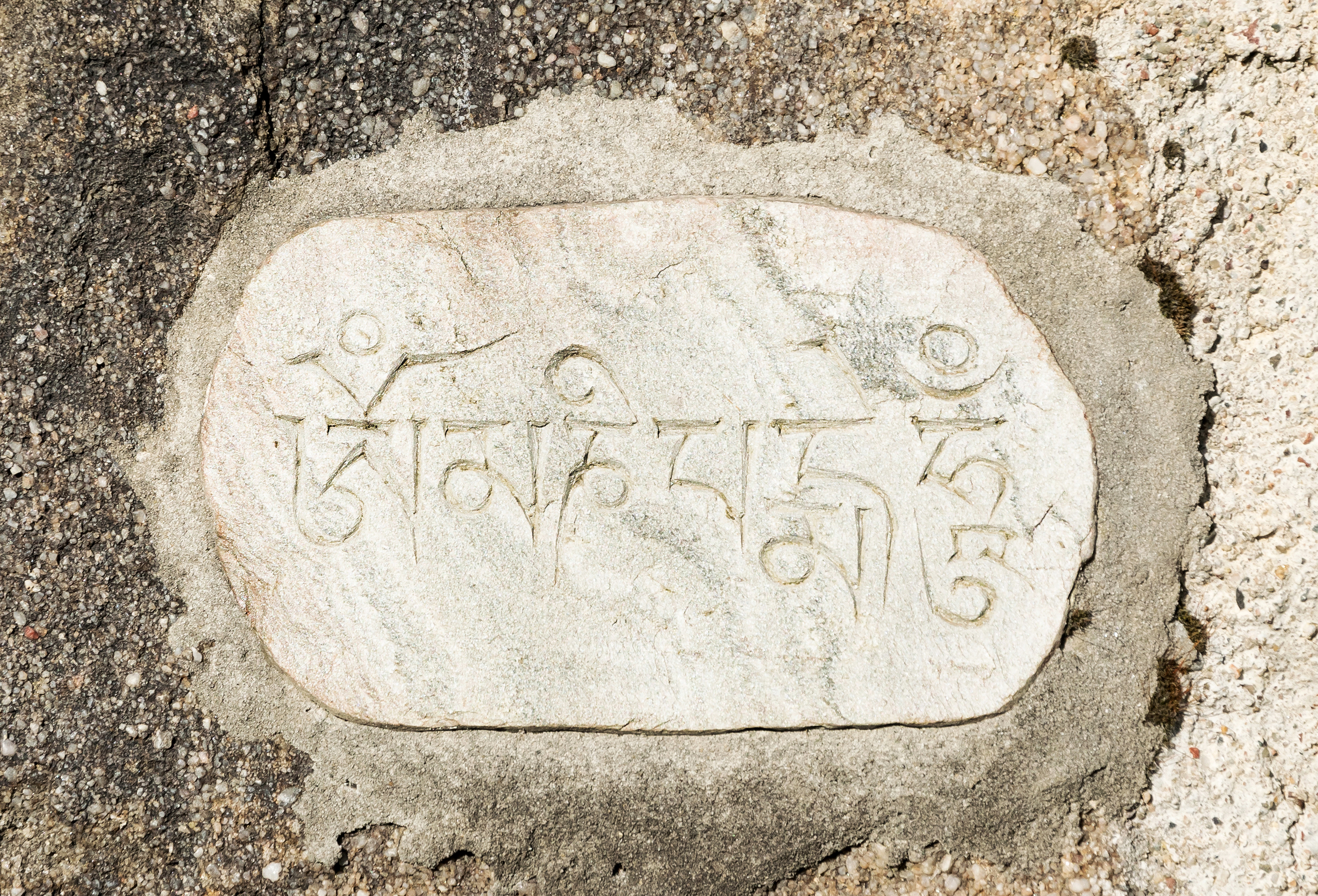 Gompa Drophan Ling in Darnków (Buddhist centre of Bhutanese and Tibetan traditions in Poland), Mani stone with Om mani padme hum mantra